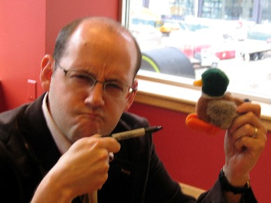 Picture taken by Michaela Murphy and posted with permission; original found at She owns the copyright and said the following: "I grant permission to copy, distribute and/or modify these images under the terms of the GNU Free Documentation License, Version 1.2 or any later version published by the Free Software Foundation; with no Invariant Sections, no Front-Cover Texts, and no Back-Cover Texts."